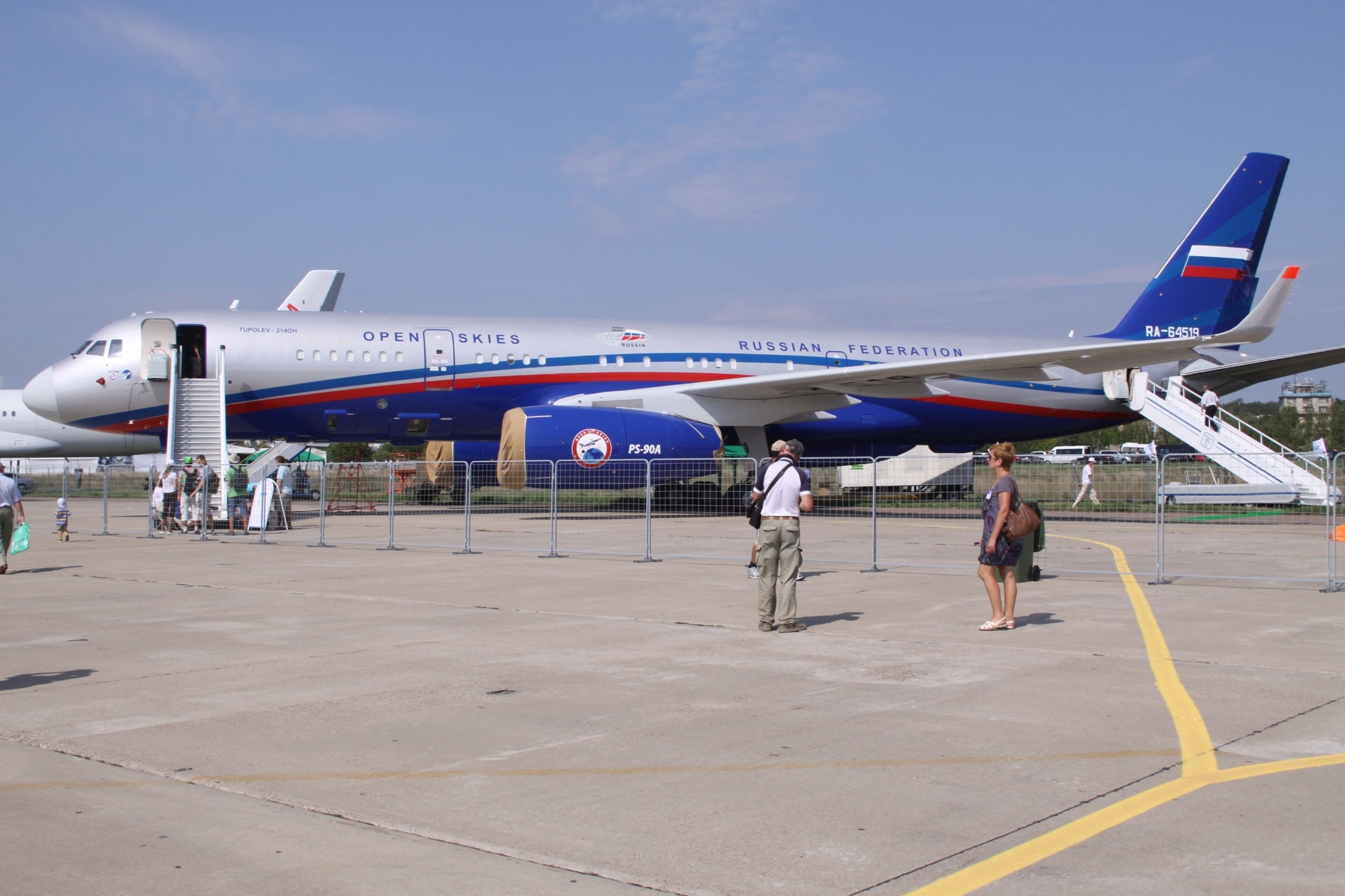 At Moscow Zhukovsky